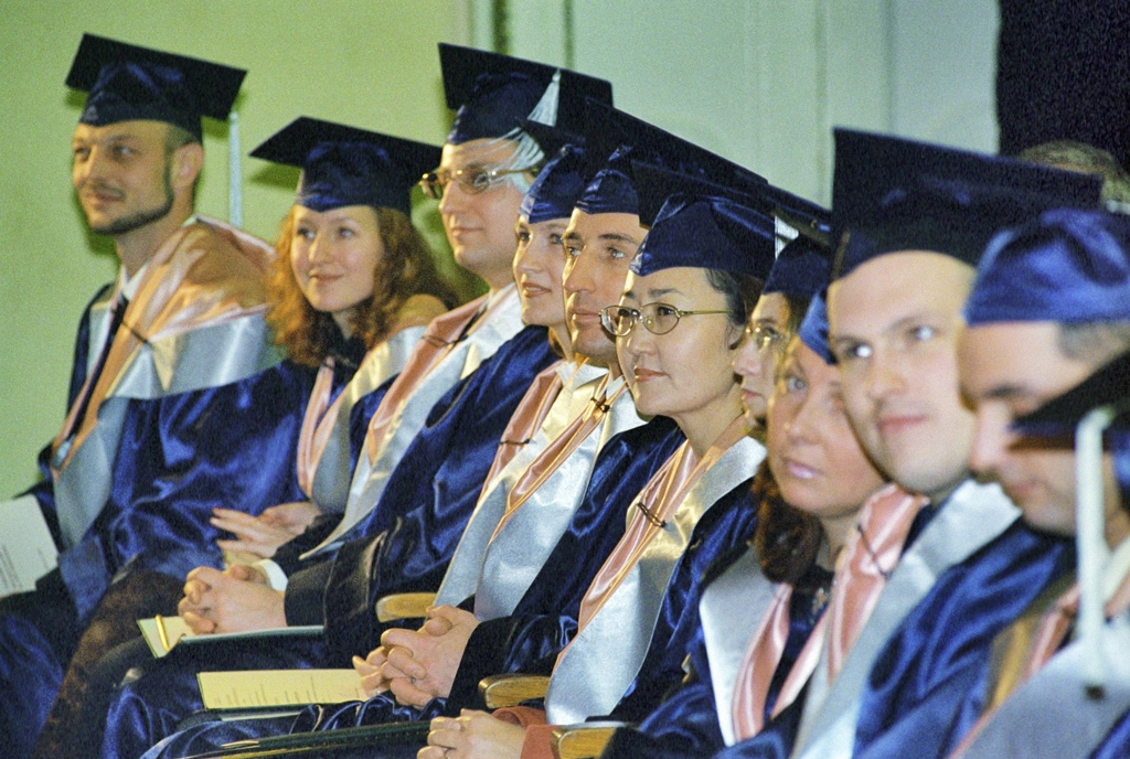 “Graduates of the Moscow University's Higher School of Business”. Graduates of the Moscow University's Higher School of Business, who attended MBA classes, attend the ceremony of certificate granting by Moscow University rector Alexander Sadovnichy